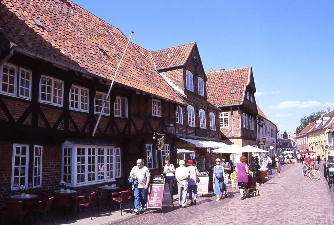 Ribe, Denemark